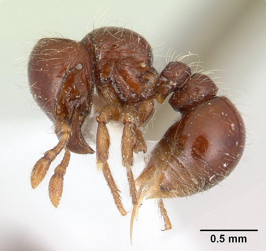 Profile view of ant Tatuidris tatusia specimen casent0178882.